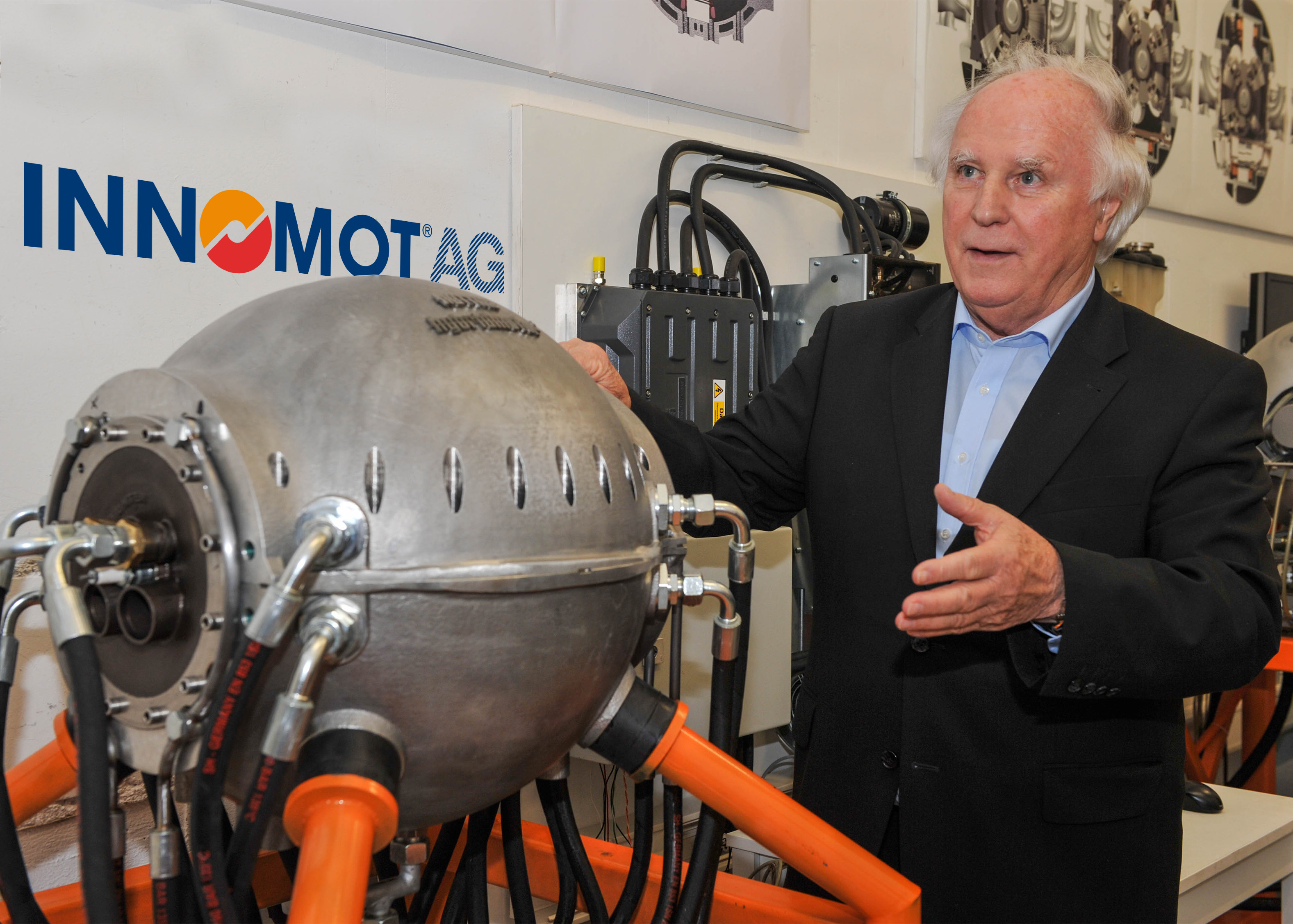 Dr. h.c. Herbert Hüttlin explains the technology Hüttlin-Kugelmotor-Hybrid® at the showroom of Innomot AG.